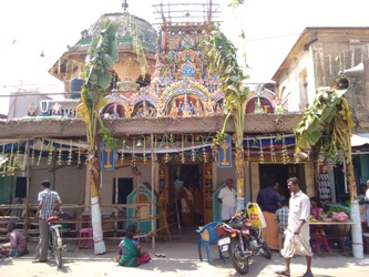 Bigstreet anjaneyarKumbabishegam பெரியகடைத்தெரு ஆஞ்சநேயர் கும்பாபிஷேகம்